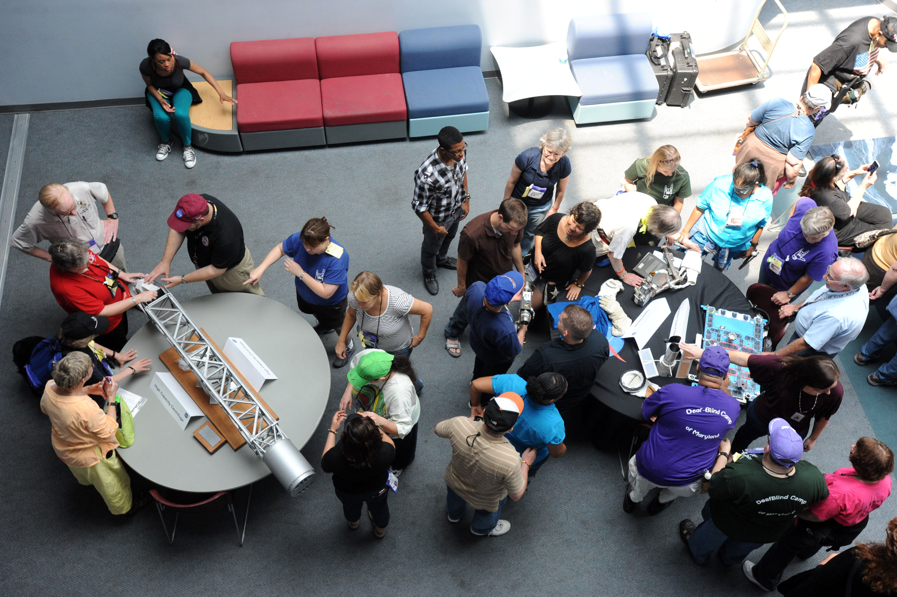 NASA's Goddard Space Flight Center in Greenbelt, Md., hosted some 100 campers and volunteers from the Deaf-Blind Camp of Maryland on June 12. The camp, based in West River, Md., was established in 1998 to provide a safe, fun, barrier-free week for people who have significant hearing and vision loss.